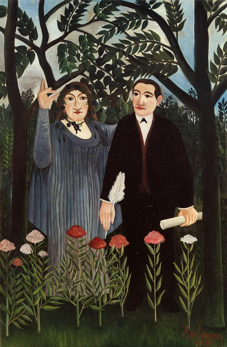 This works portrays French poet Guillaume Apollinaire (1880-1918) and his muse, French painter Marie Laurencin.